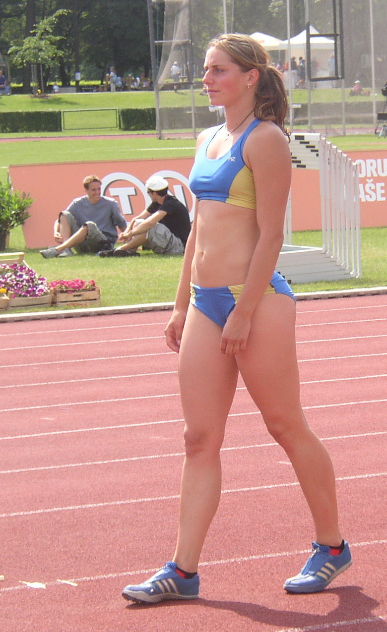 Czech heptathlete Eliška Klučinová preparing for an attempt in long jump at TNT - Fortuna Meeting in Kladno, June 19, 2008.